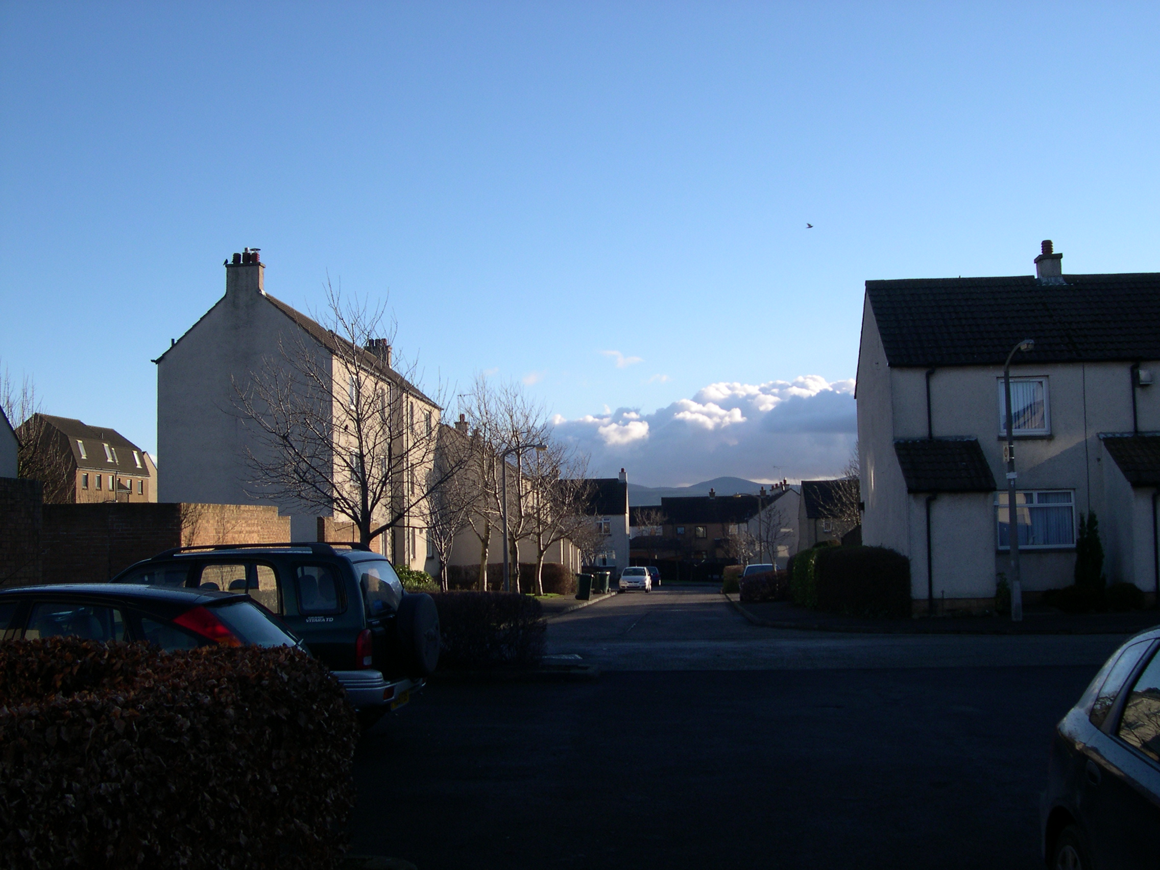 A image of typical suburban housing in the district of East Craigs, Edinburgh, Scotland.